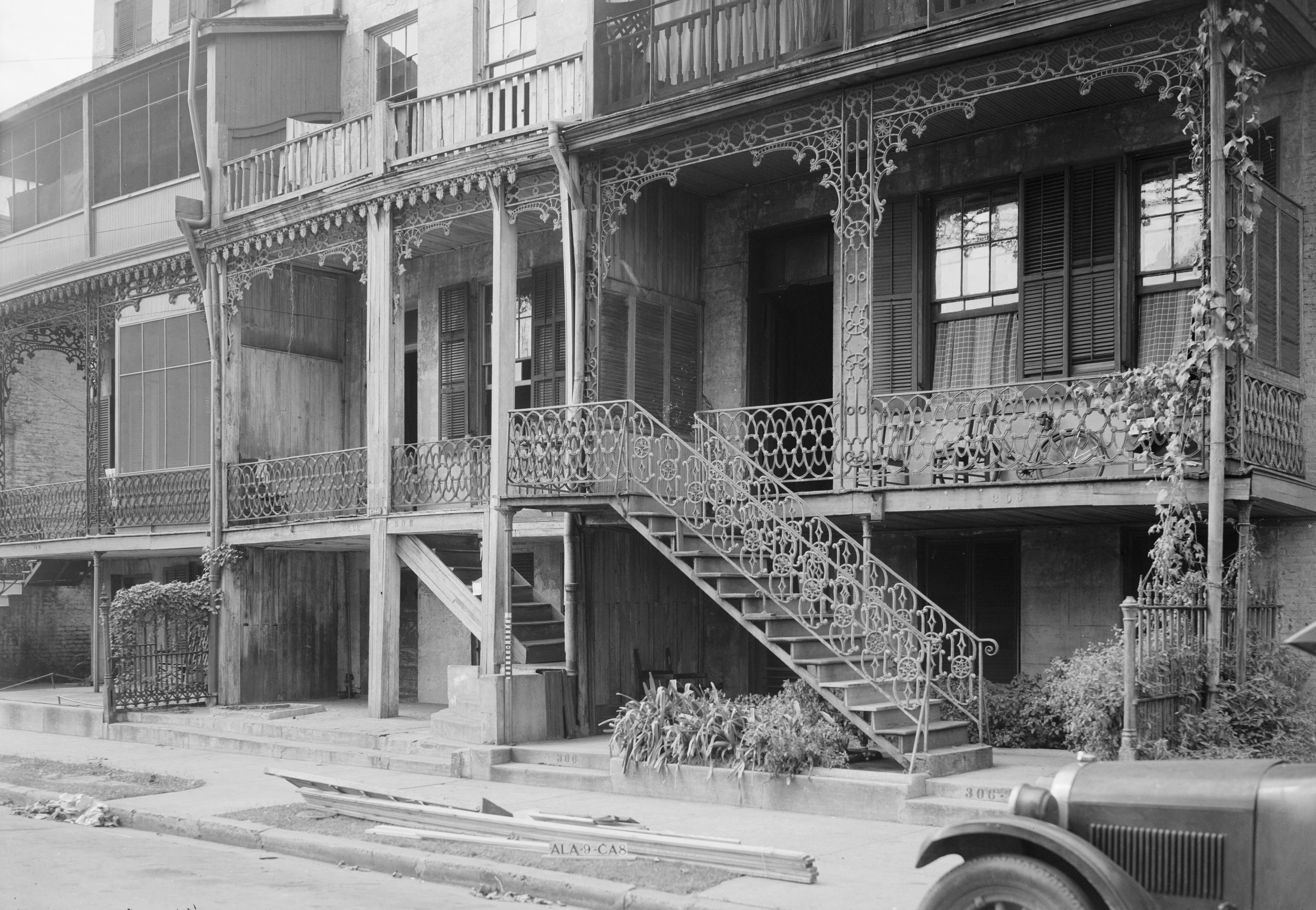 Bloodgood's Row, 306, 308 & 310 Monroe Street, Mobile, Mobile County, AL.